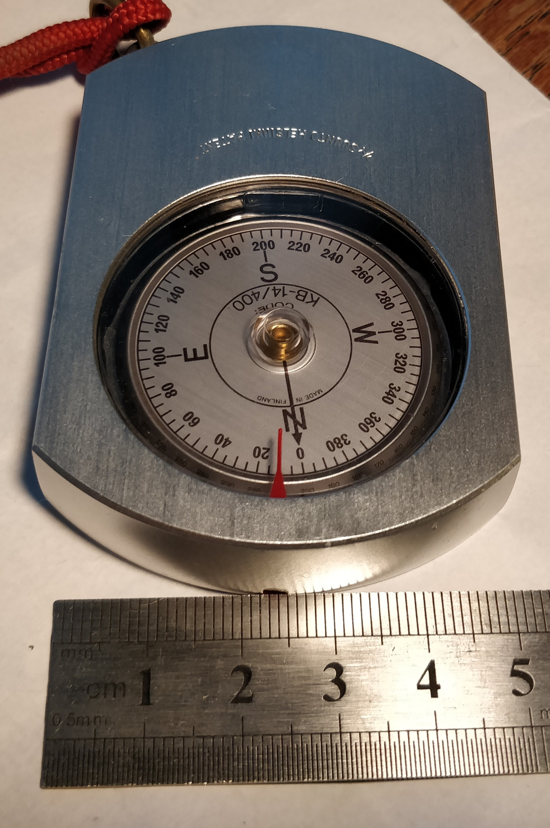 Photograph of a hand bearing compass that uses a unit of measurement of an angle called gradian.